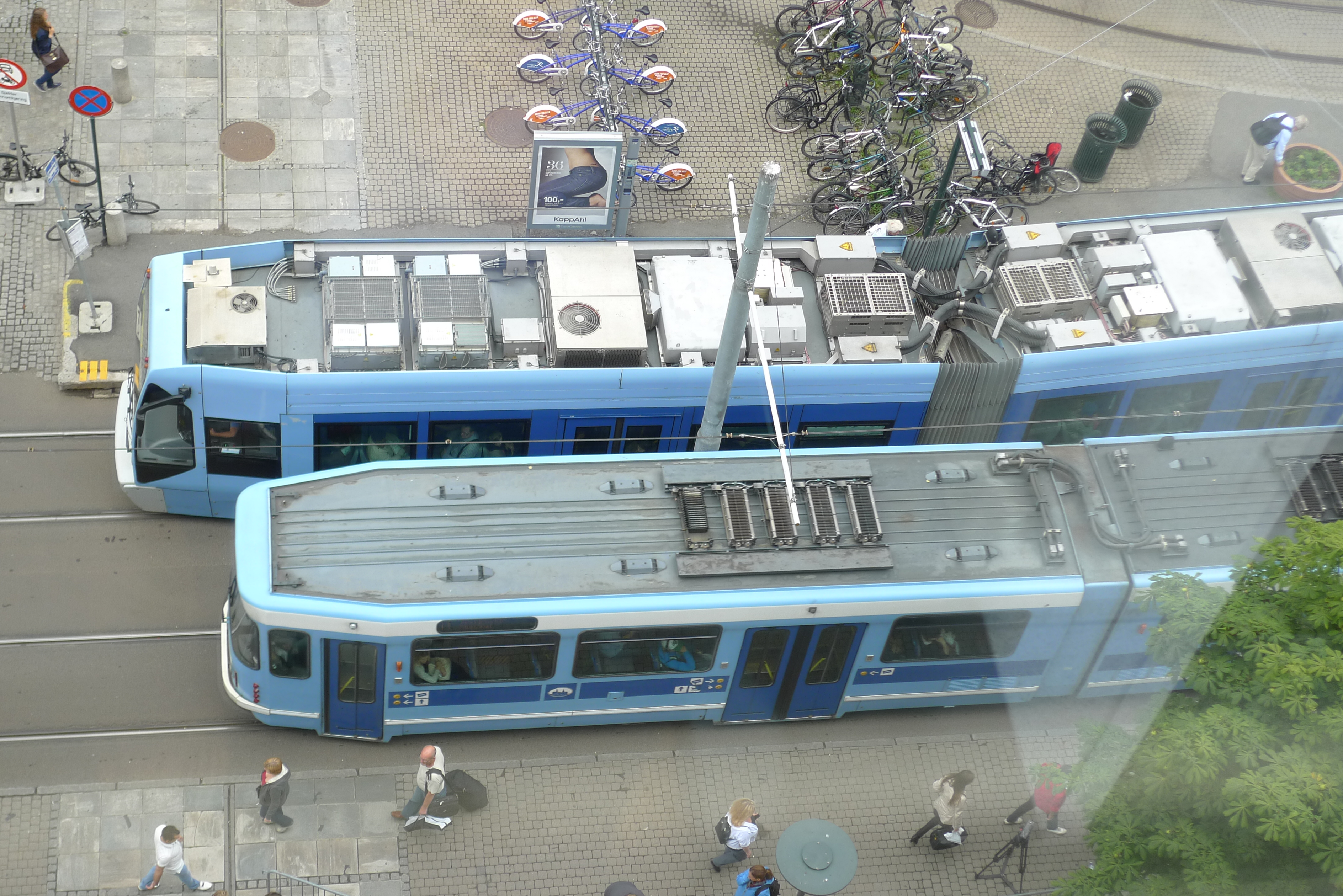 transport in Oslo